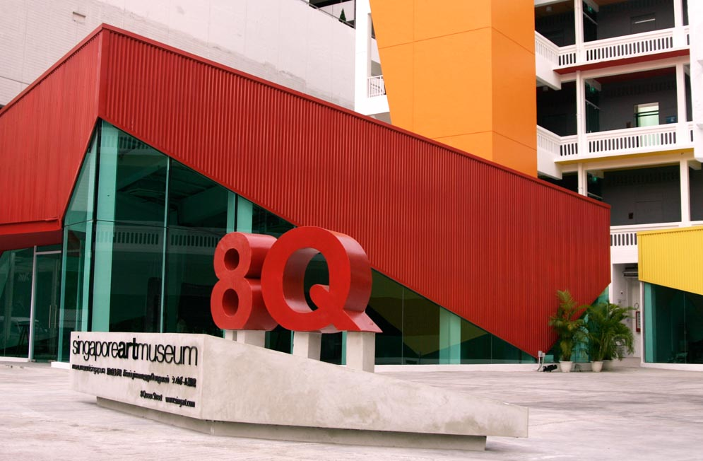 Glass hall and sign of 8Q SAM on Queen Street.